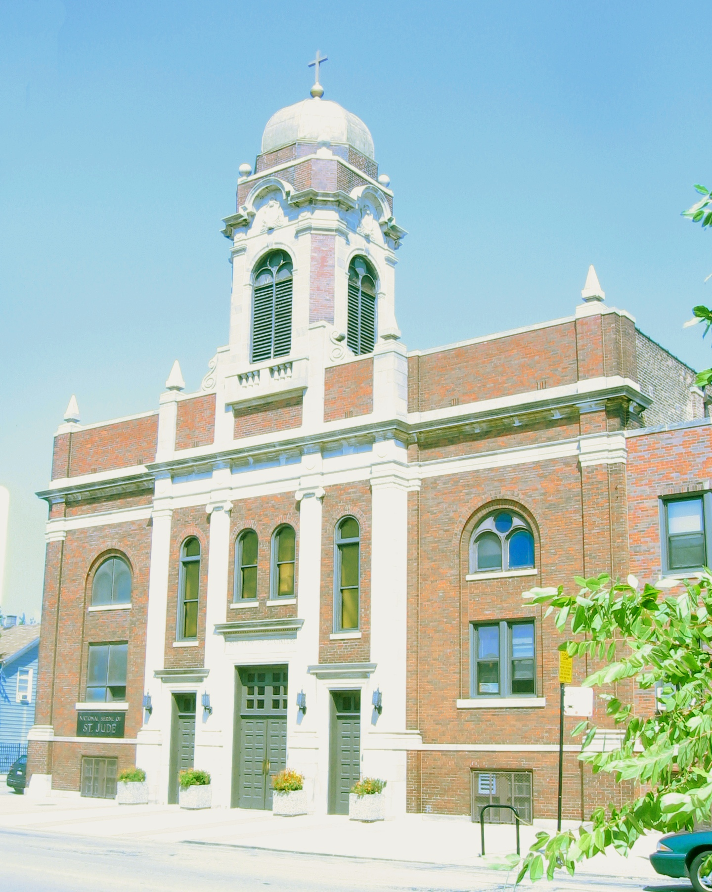 Our Lady of Guadalupe Church in the South Chicago neighborhood of Chicago.